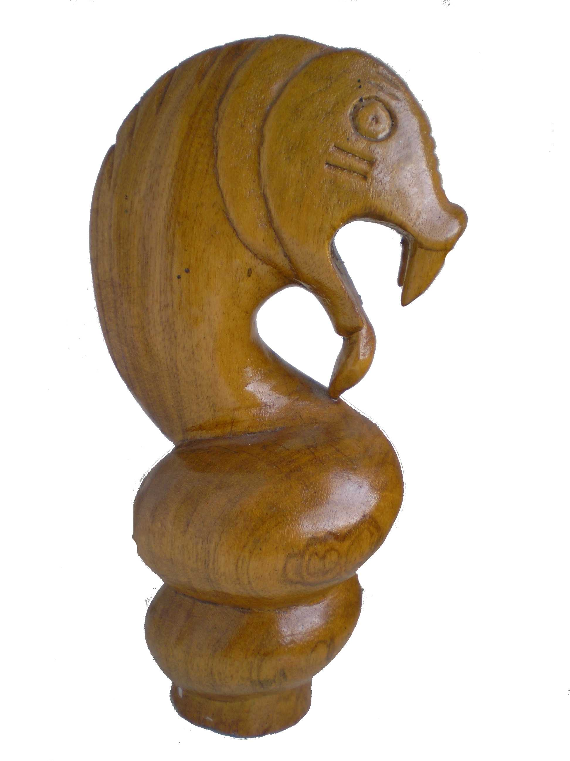 A wooden carving of the mythical creature, the Nyaminyami